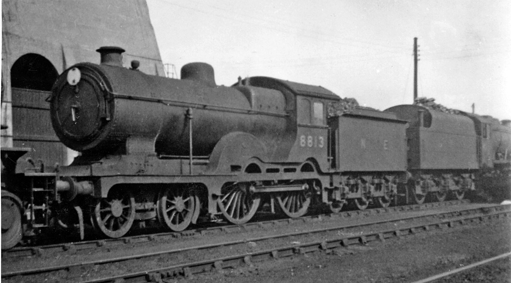 D16/2 'Super-Claud' 4-4-0 by coaler at March Locomotive Depot. View roughly northward, in the very long lines of locomotives resting on a Sunday at the Depot adjoining the great Whitemoor Marshalling Yards just north of March Station on the ex-Great Northern & Great Eastern Joint line to Spalding and the North. This was in 1946, shortly after World War Two - in which Whitemoor Yards were busier than they ever were. In January 1947 March Depot had an allocation of 209 locomotives with heavy freight engines predominating. Its complement was:- 8 4-6-0, 9 4-4-0, 88 2-8-0 (35 LNE, 15 LMS 8F, 38 ex-WD), 33 2-6-0, 62 0-6-0, 2 0-8-4T, 3 0-6-0T, 4 0-6-0 Diesel. No. 8813 (BR No. 62584) was one of several D16/2 ('Super-Clauds' with extended smokebox) allocated to March for the relatively few secondary passenger duties worked from there.